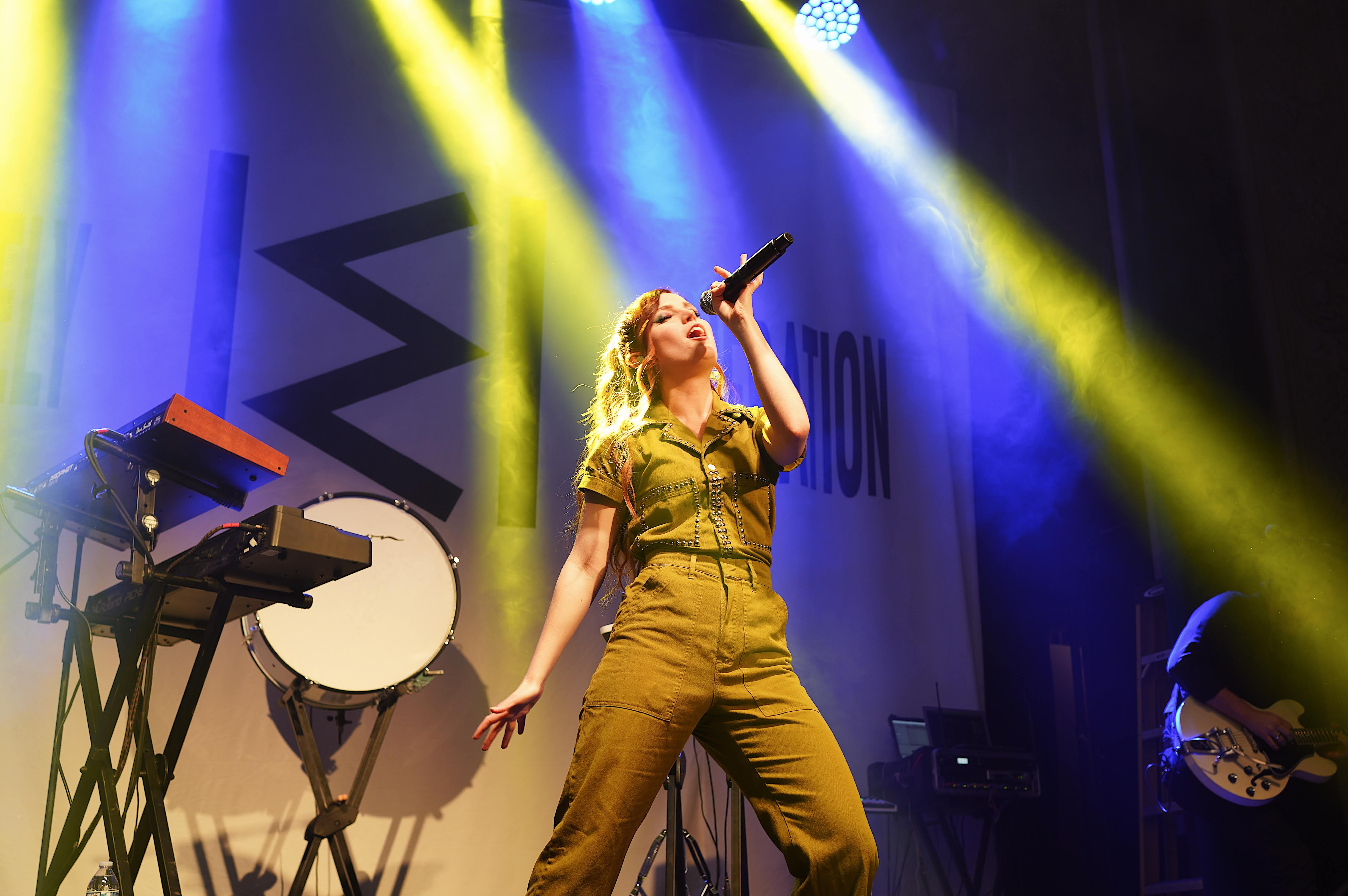 Photograph by Josh Jaffe (@josh_jaffe)